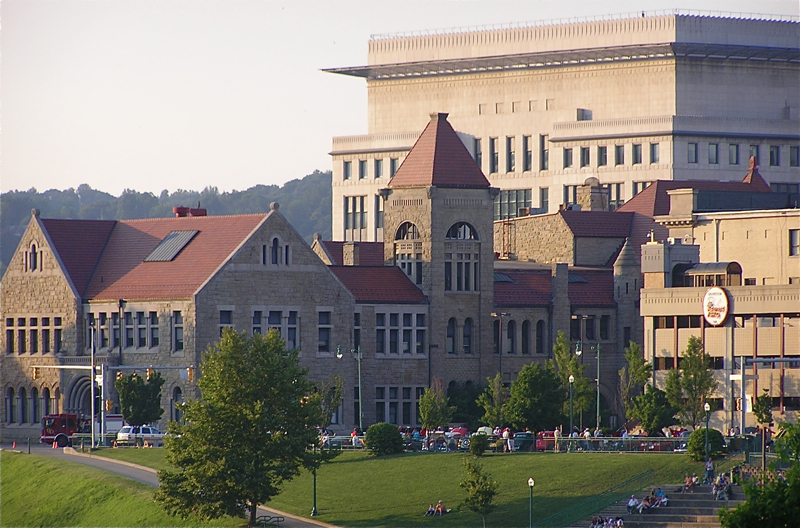 Kanawha County Courthouse (built 1892), located in {Charleston, Kanawha County, West Virginia. The Richardsonian Romanesque style stone complex is on the National Register of Historic Places in Kanawha County, West Virginia. Additions were made to the original building in 1917 and 1924. Image: July 2008.